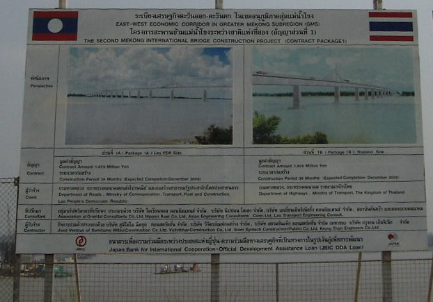 Mukdahan Friendship Bridge II construction project